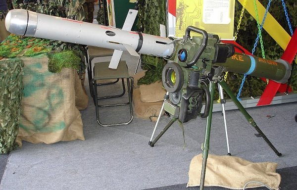 Photo taken at Singapore Army Open House 2007, SPIKE ATGM complete with mock-up SPIKE LR missile